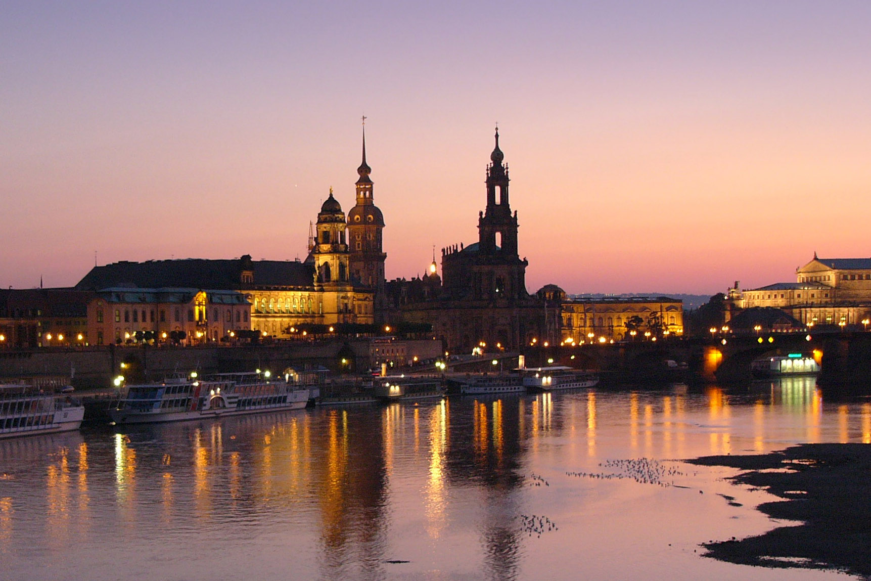 Dresden at night